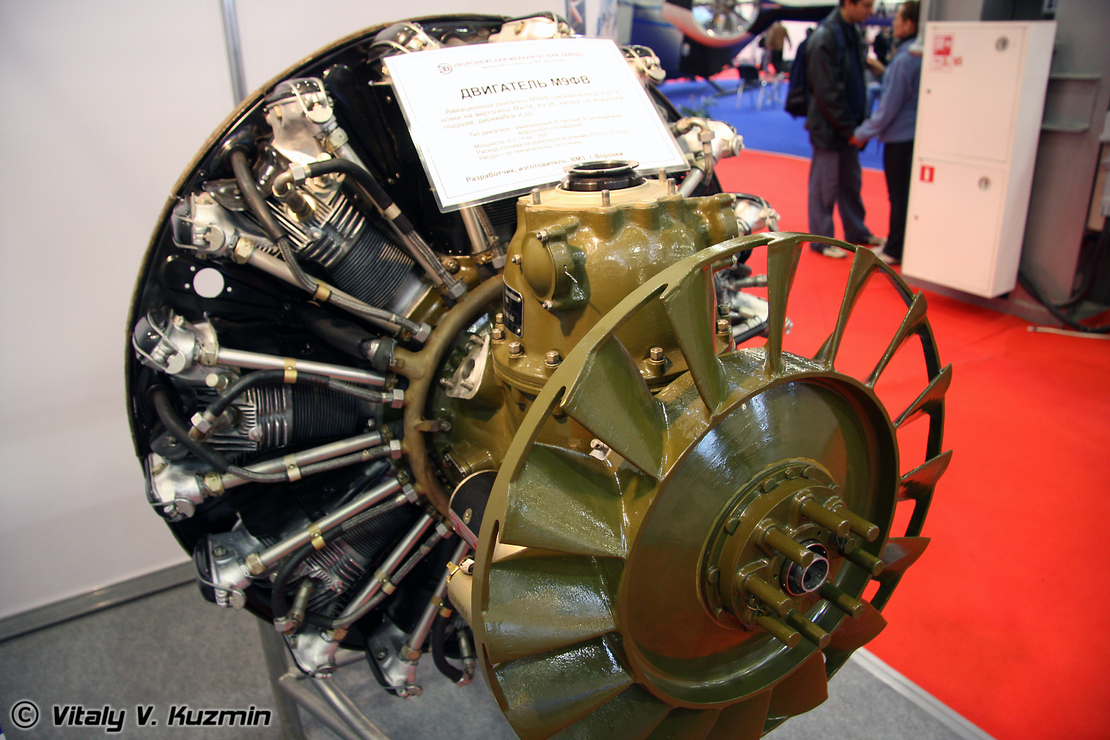 M9FV engine (M14 derivate) for Mi-34 and Ka-26)